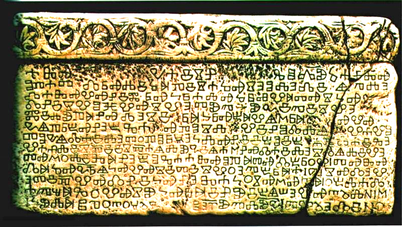 The famous Baščanska ploča, oldest evidence of the glagolitic script. Found on the island of Krk, Croatia. Permission to publish from user neoneo13.